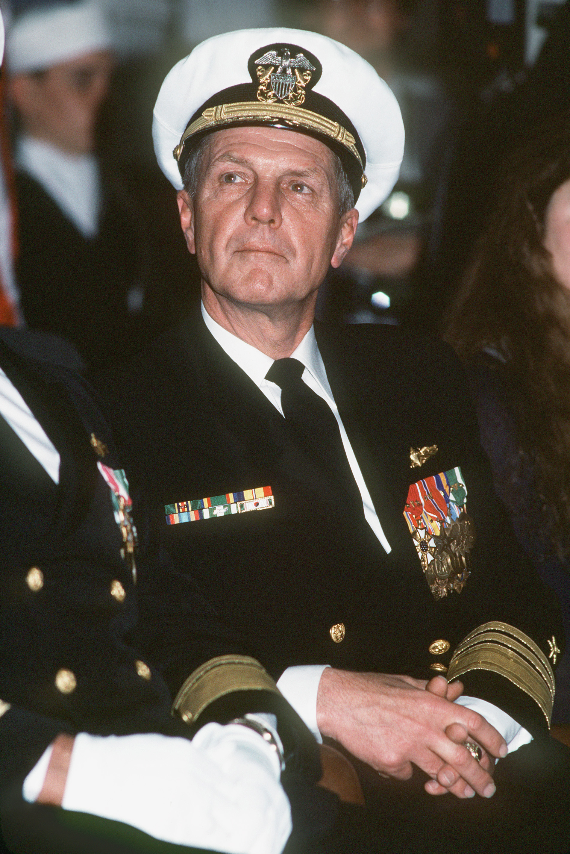 Vice Admiral Edward Briggs, commander, Naval Surface Force, US Atlantic Fleet, participates in the commissioning of the Spruance class destroyer USS HAYLER (DD 997), 03/05/1983